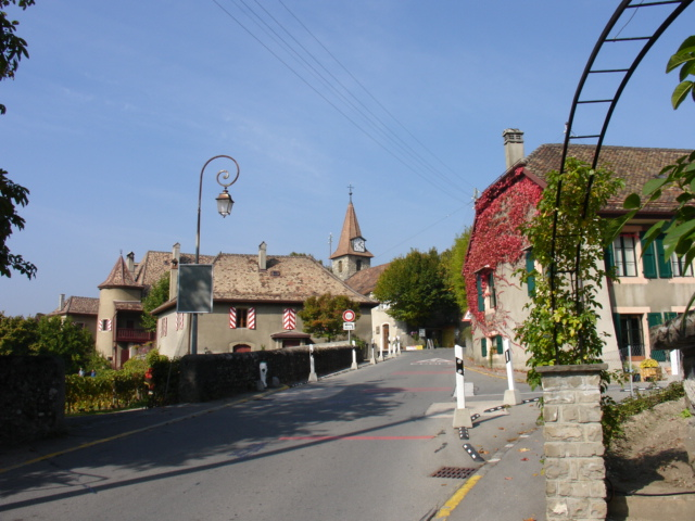 All of the new construction is north by the train tracks and the highway, so the village of Allaman is almost untouched